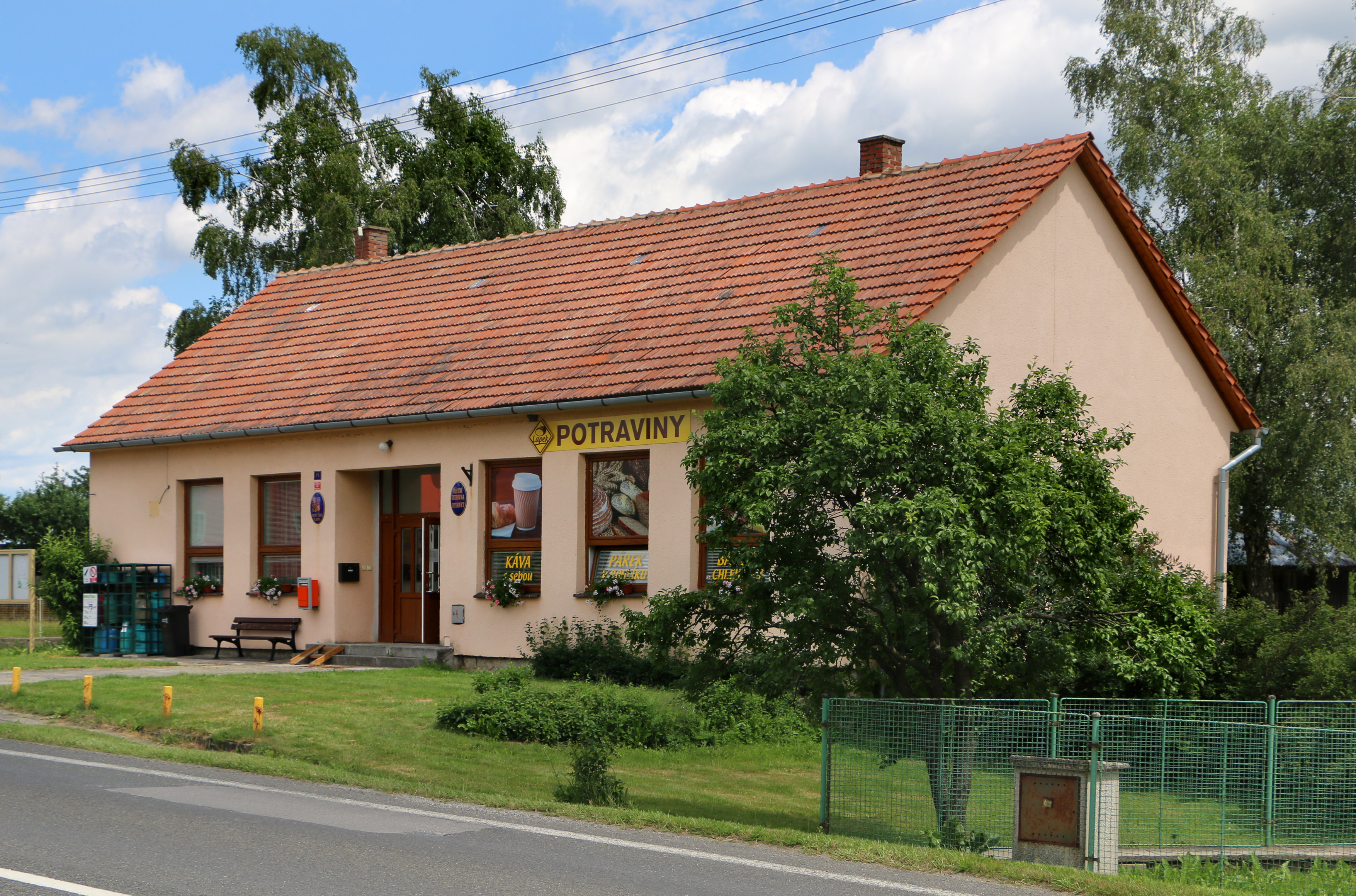 Municipal office in Hladov, Czech Republic.